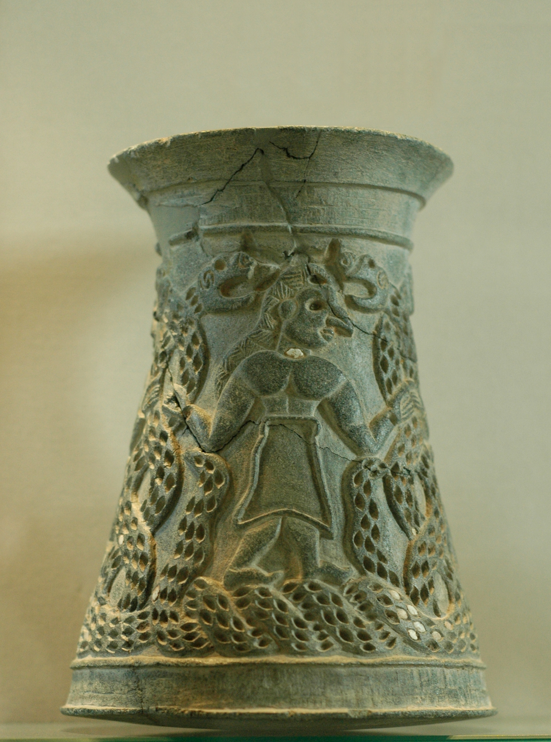 Tapered vase with everted rim and a flat lip, representing a Master of Animals mastering pairs of entwined snakes. Chlorite, mother-of-pearl and turquoise (?). Found in Tepe Giyan (Khava Valley, near Nehavend, Iran).